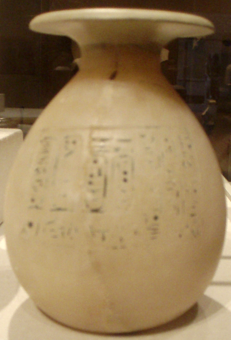 Egyptian alabaster unguent jar with the name of Akhenaten's wife Kiya.